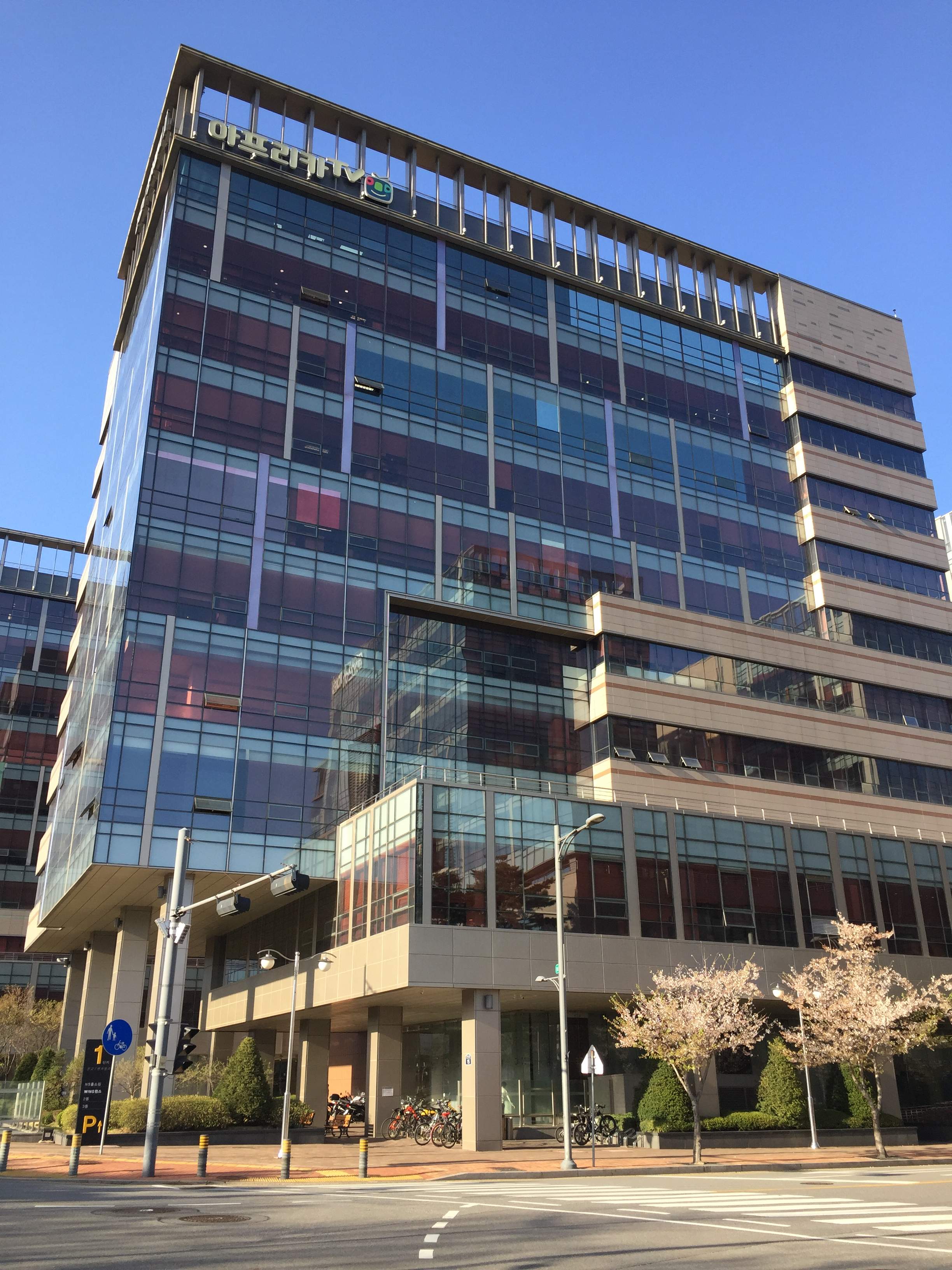 FunctionBay Inc. Headquarter